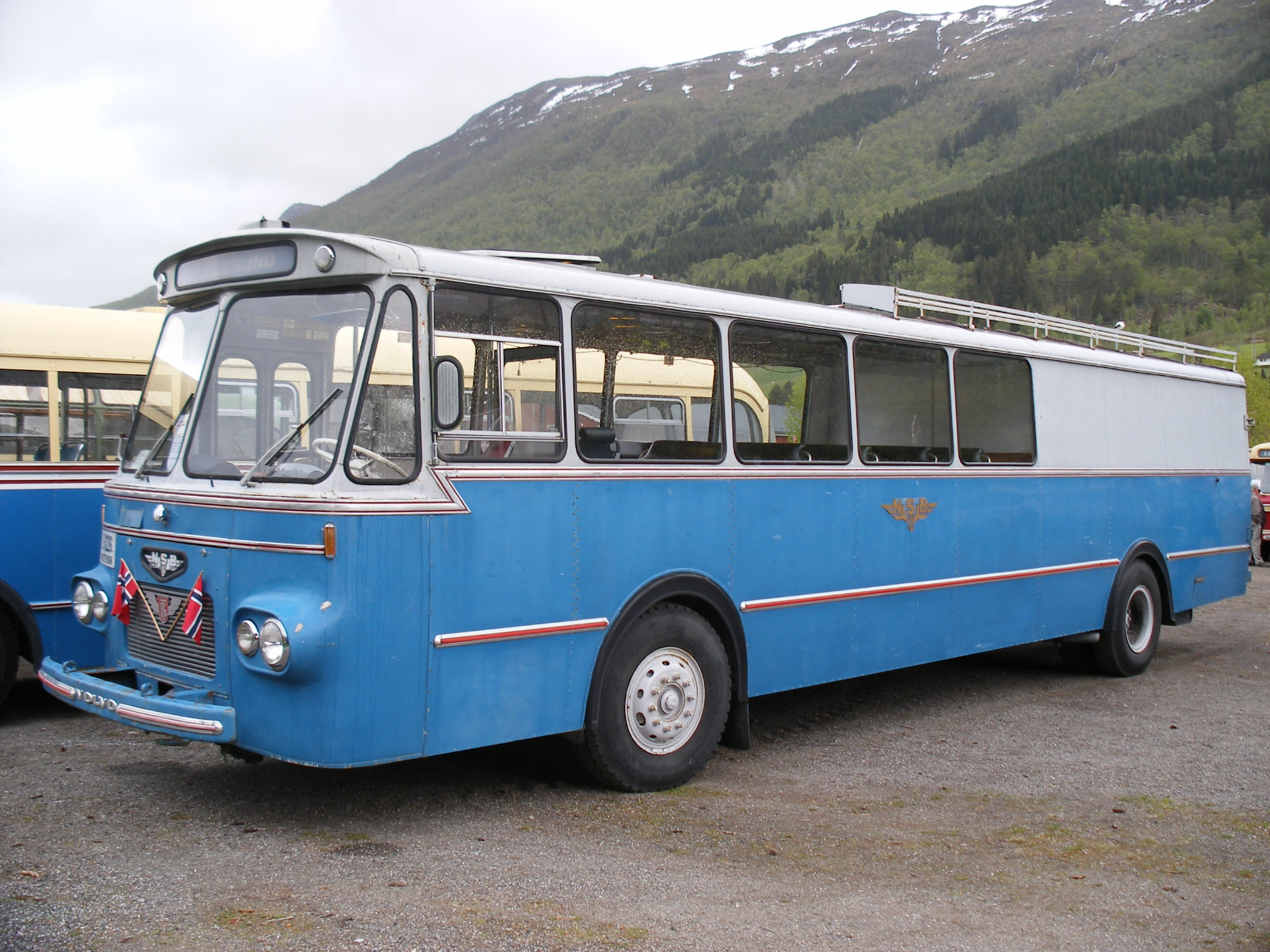 Old bus from Norway. Volvo B57 bus. NSB - Åndalsnes.